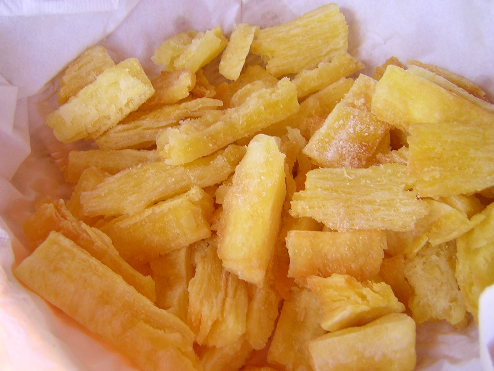 Fried manioc sprinkled with salt is a popular appetizer and side dish.